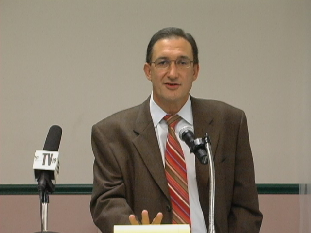 West Virginia state delegate Tim Manchin